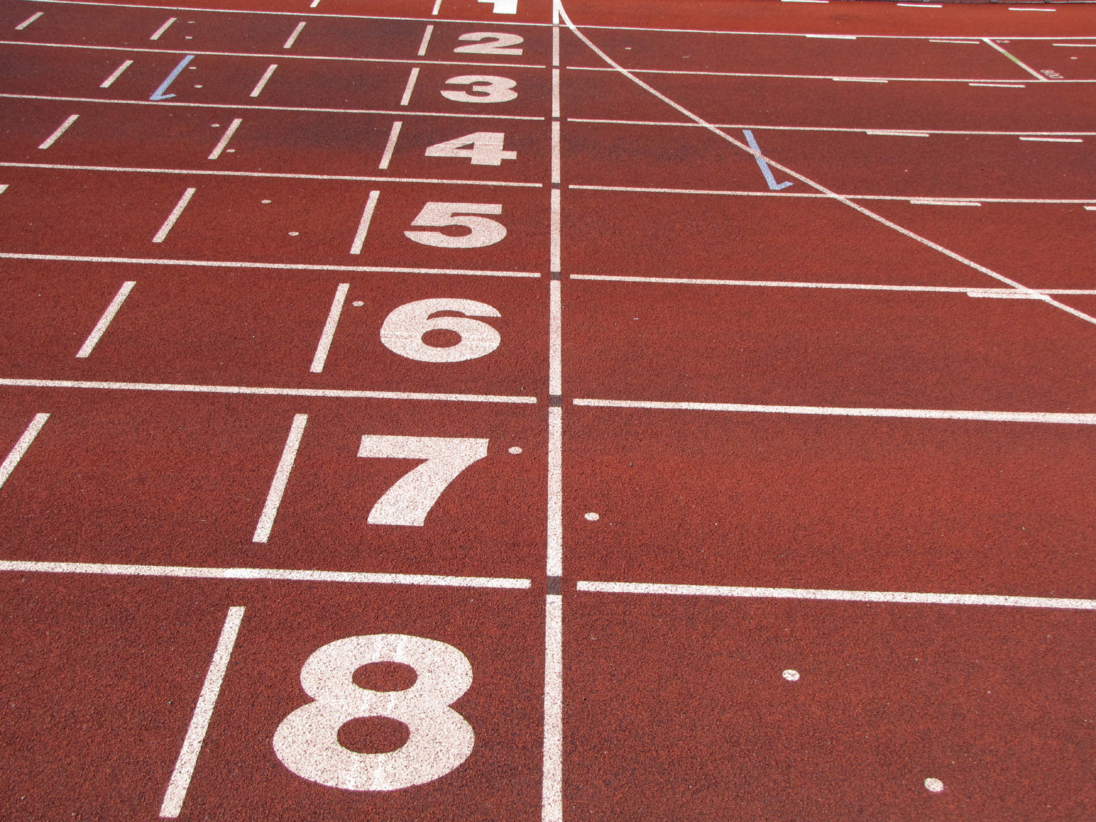 Athletics tracks finish line